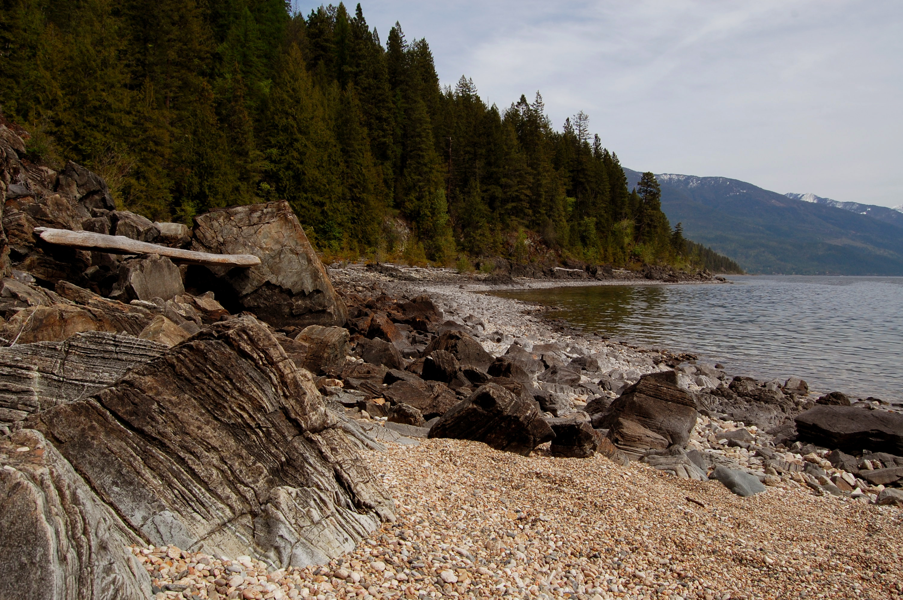 Boomer's Landing at Pilot Bay PP This photo was taken in a protected area in Canada, Wikidata item Pilot Bay Provincial Park (Q7194406)